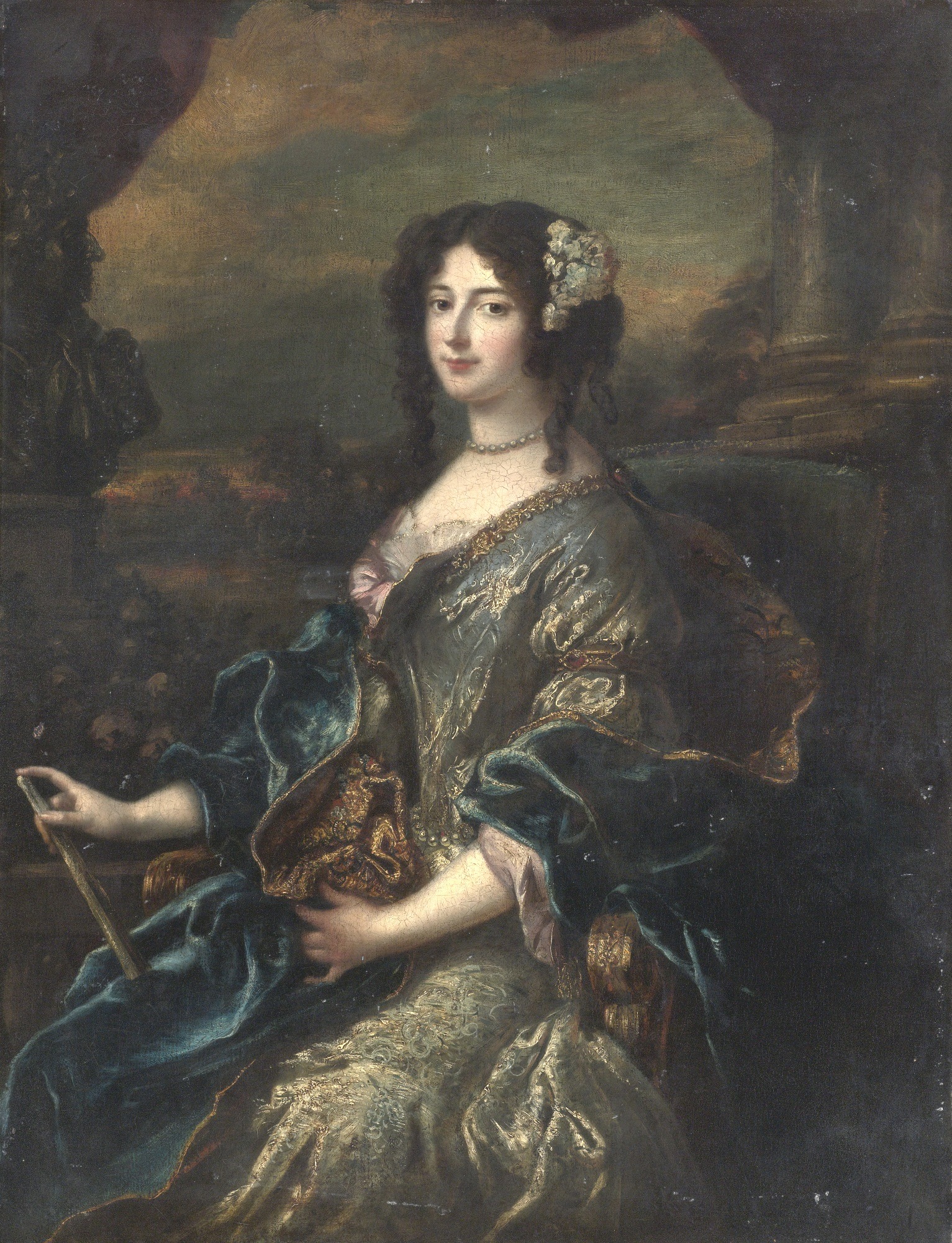 Portrait of a lady